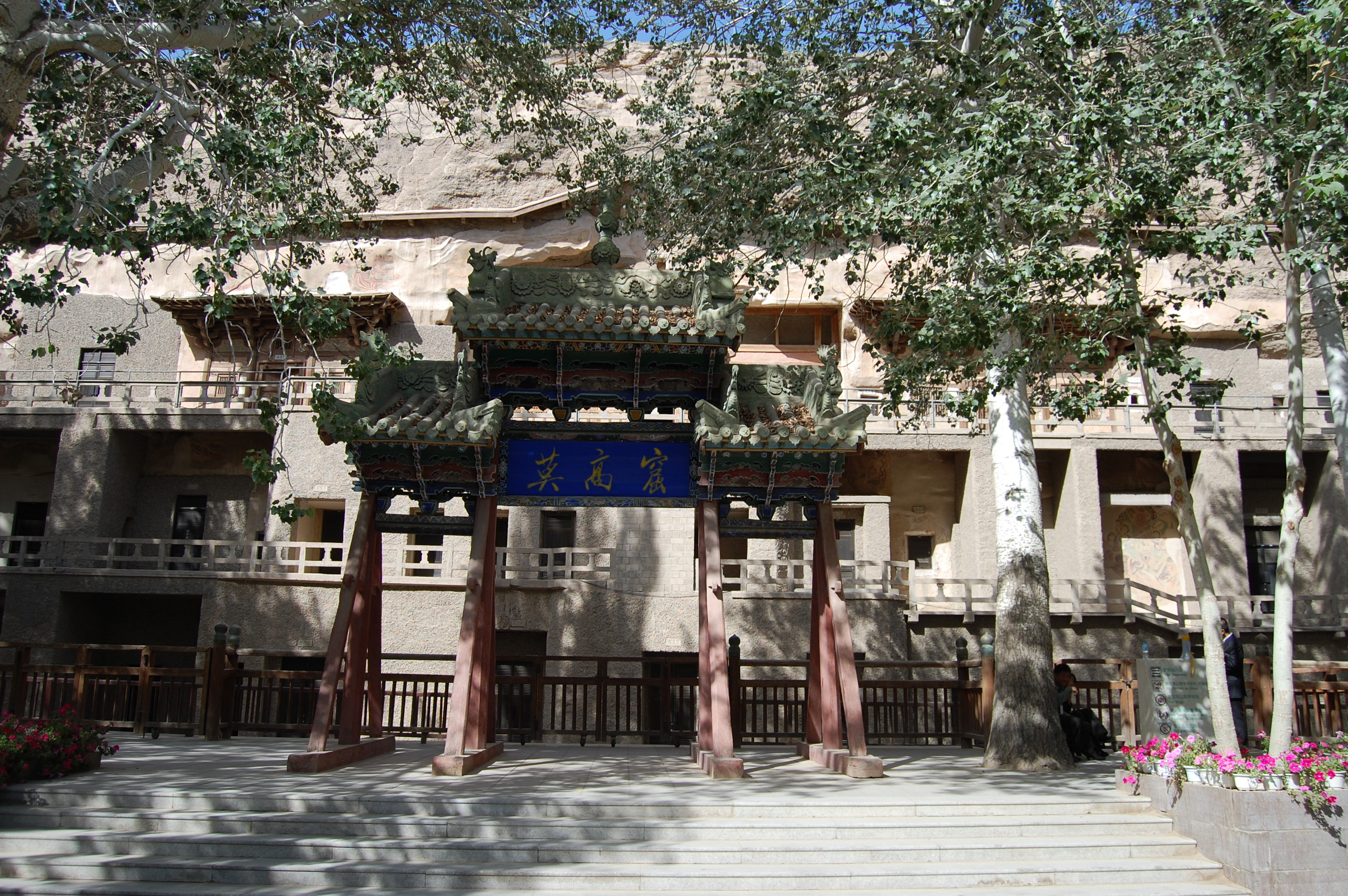 Entrance gate to the Magao Caves near Dunhang, Gansu Province, China